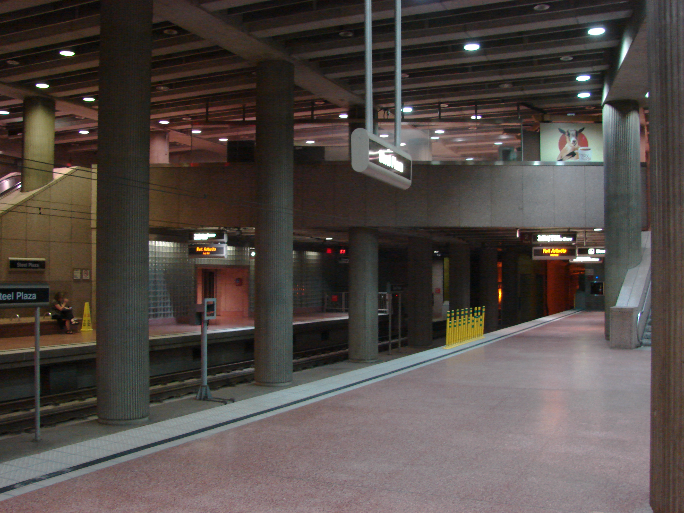 The center passenger platform at the Steel Plaza (PAT station)